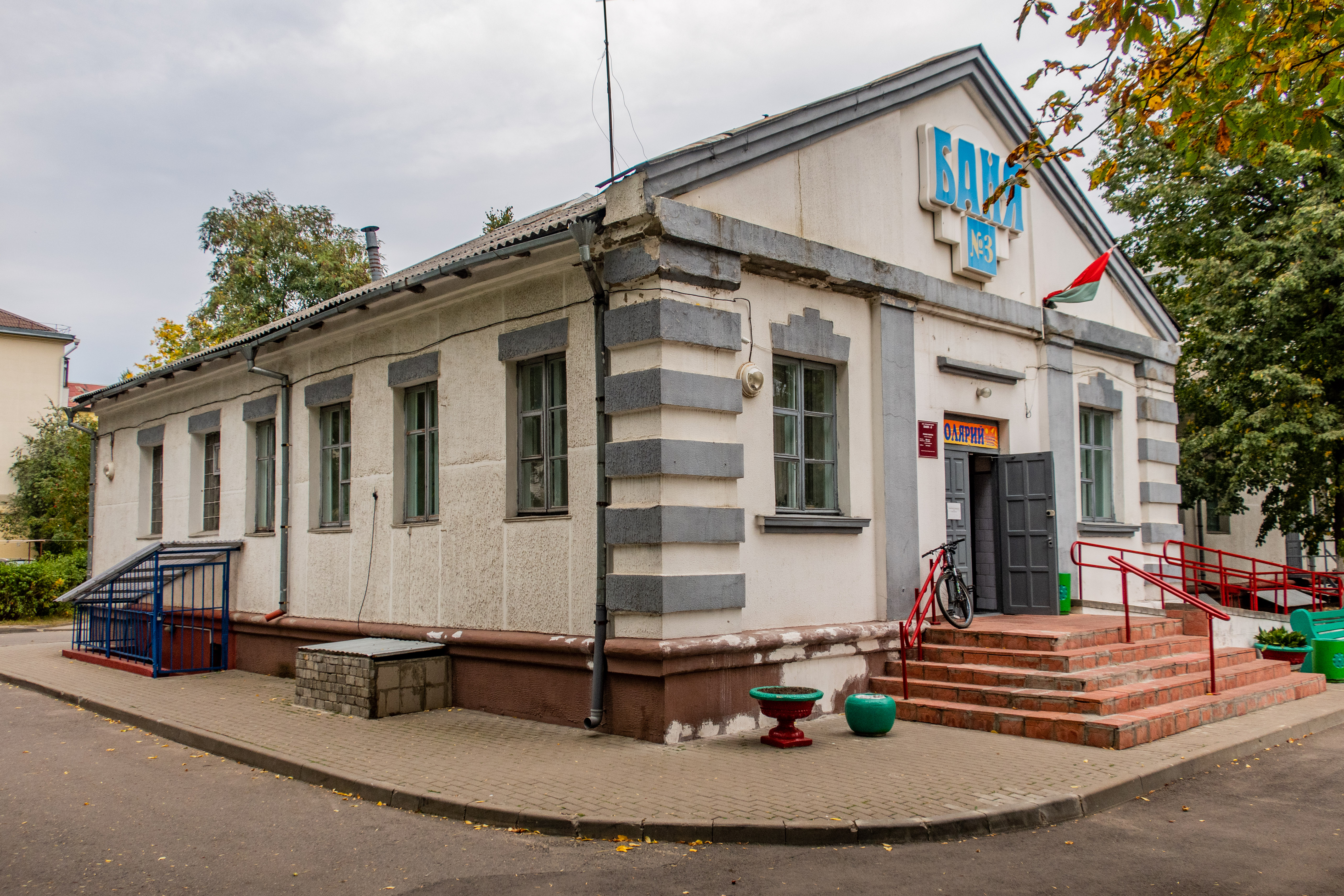 Public bathhouse No 3. Minsk, Belarus